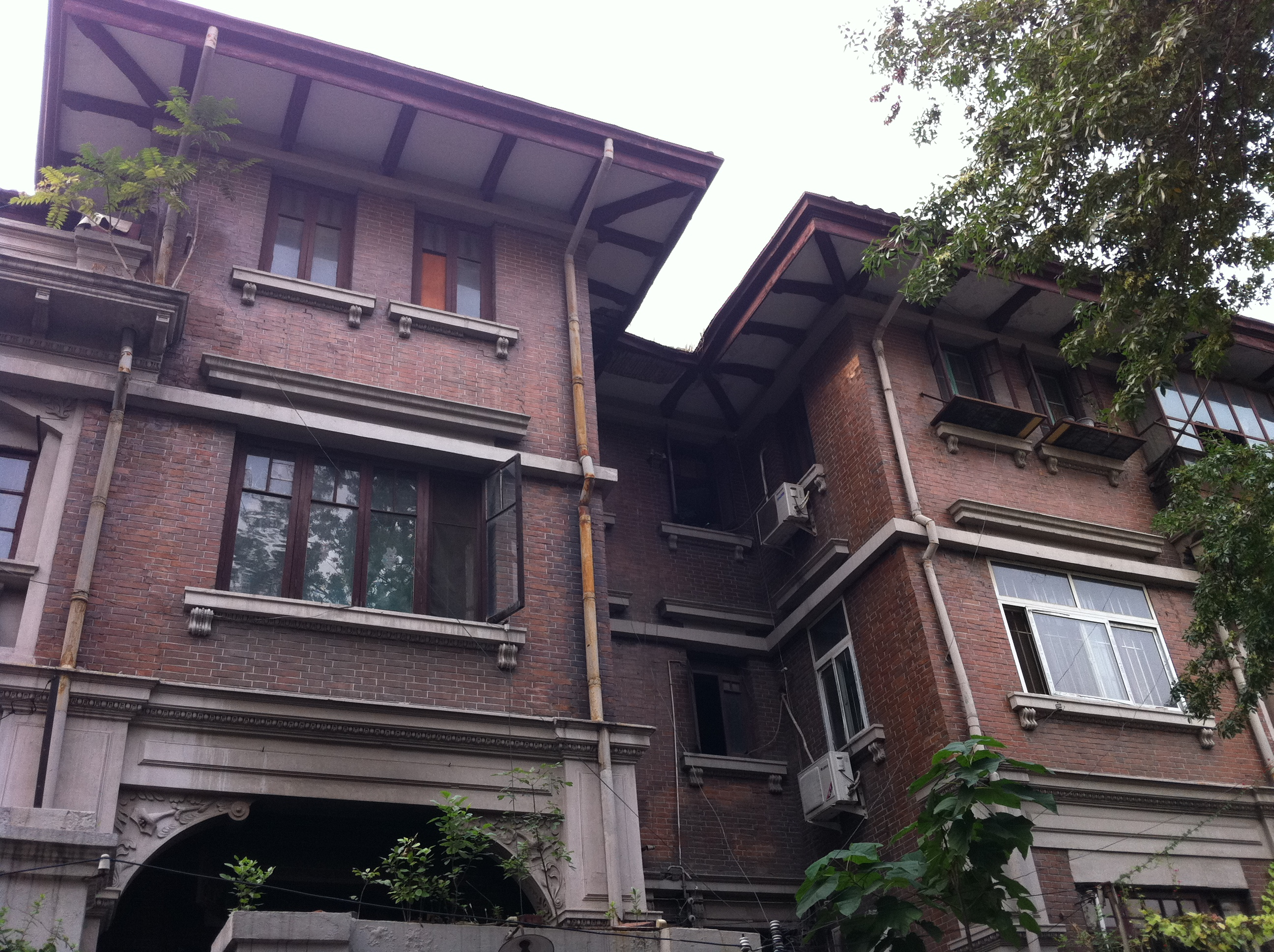 Wanquan Dao No. 48–56, Shaanxi Lu No. 49